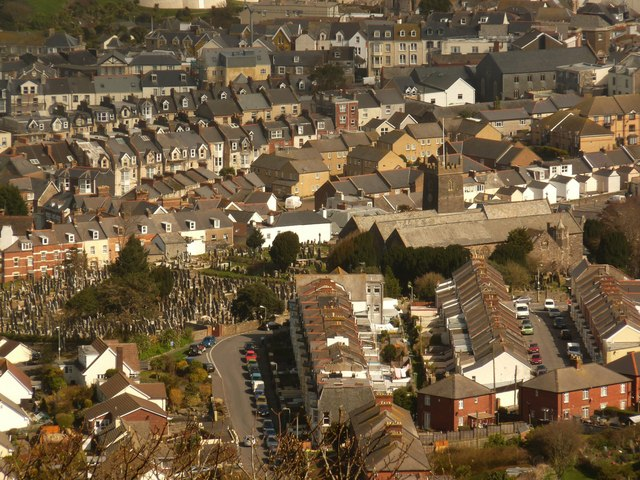 Ilfracombe Parish Church & surrounding streets. In the foreground is Langleigh Road with Westbourne Grove on the right. The parish church and graveyard spans the width of the image. Behind the church are the light coloured bricks of Hermitage road. In the upper left corner the Jubilee Gardens and Landmark Theatre.